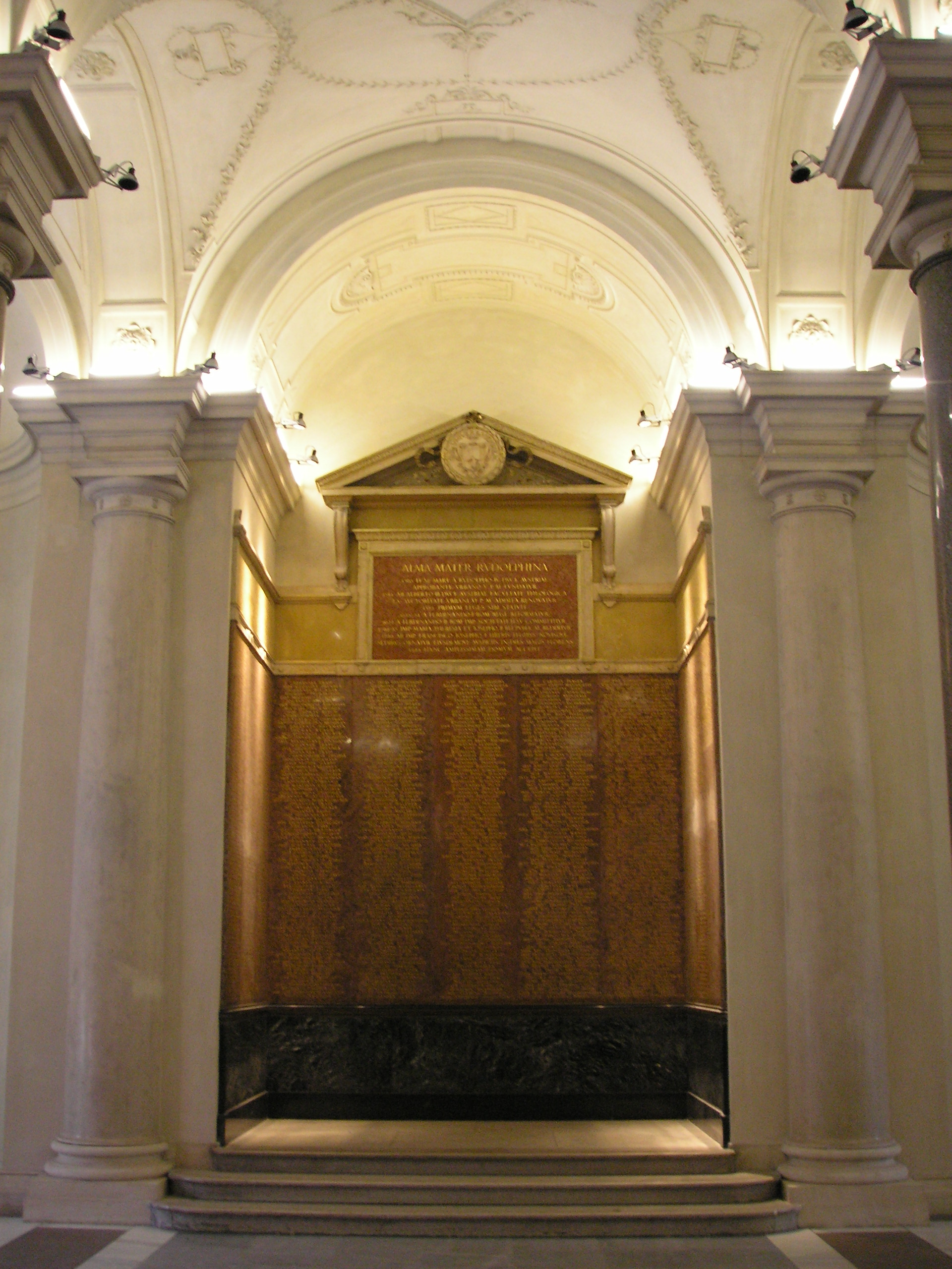 Description: Memorial at the main entrance (Foyer) in the University of Vienna. Source: self-made, I release it into the public domain.